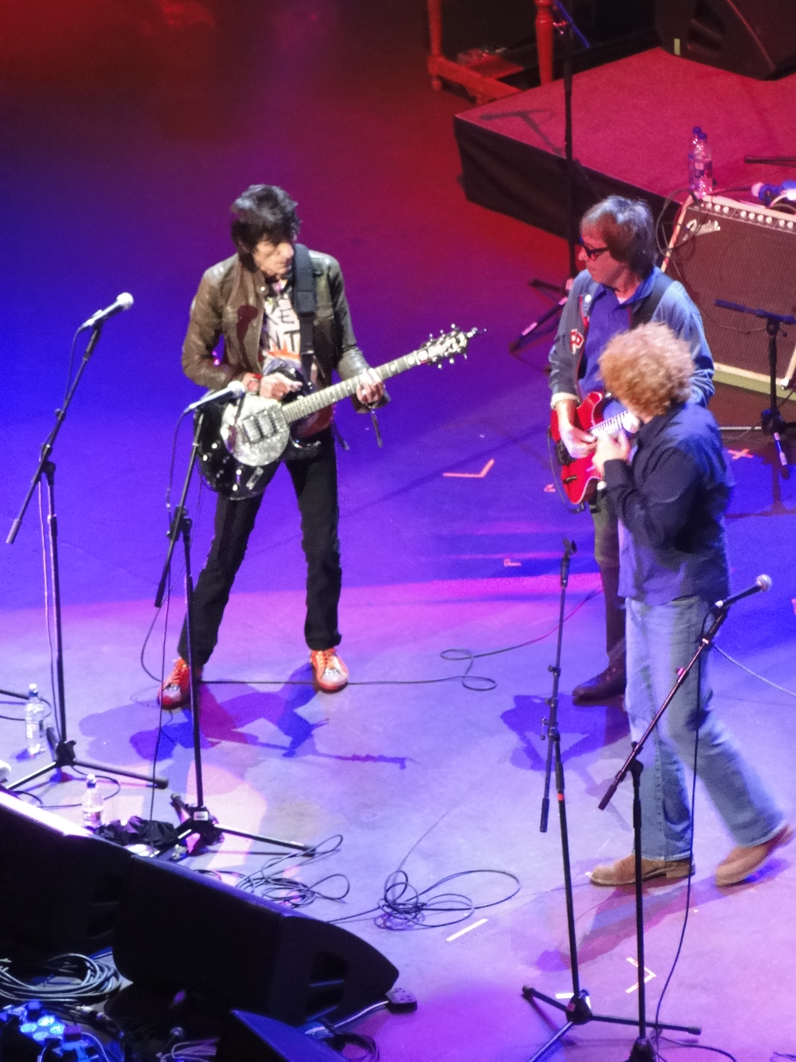 Ronnie Wood, Bill Wyman and Mick Hucknall at London's Royal Albert Hall October 2009